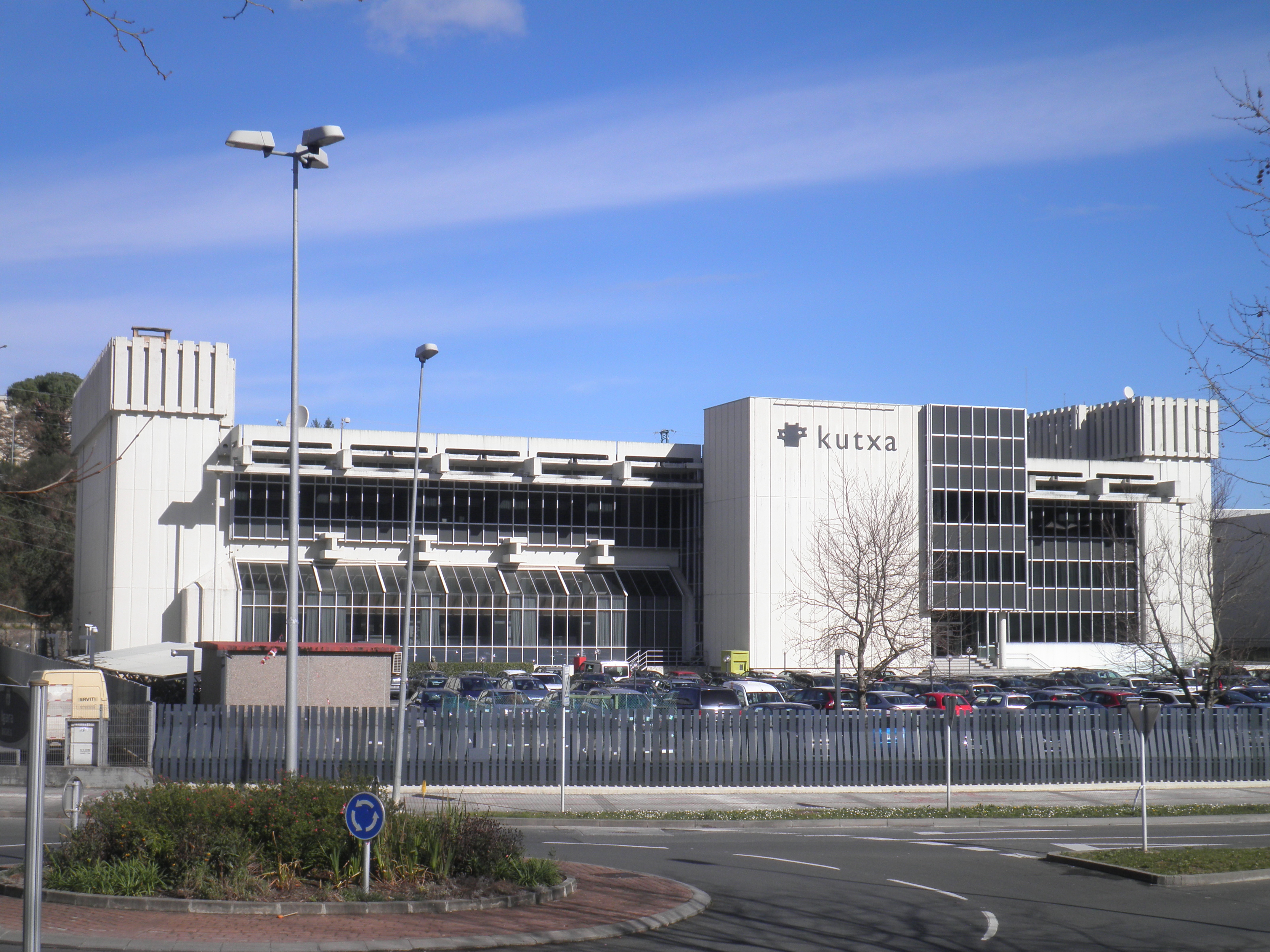 Kutxa building in Igara.